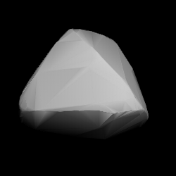 3D convex shape model of 2830 Greenwich, computed using light curve inversion techniques. J. Hanuš, J. Ďurech, M. Brož, B. D. Warner (June 2011). "A study of asteroid pole-latitude distribution based on an extended set of shape models derived by the lightcurve inversion method". Astronomy and Astrophysics 530: A134. ISSN 0004-6361. arXiv